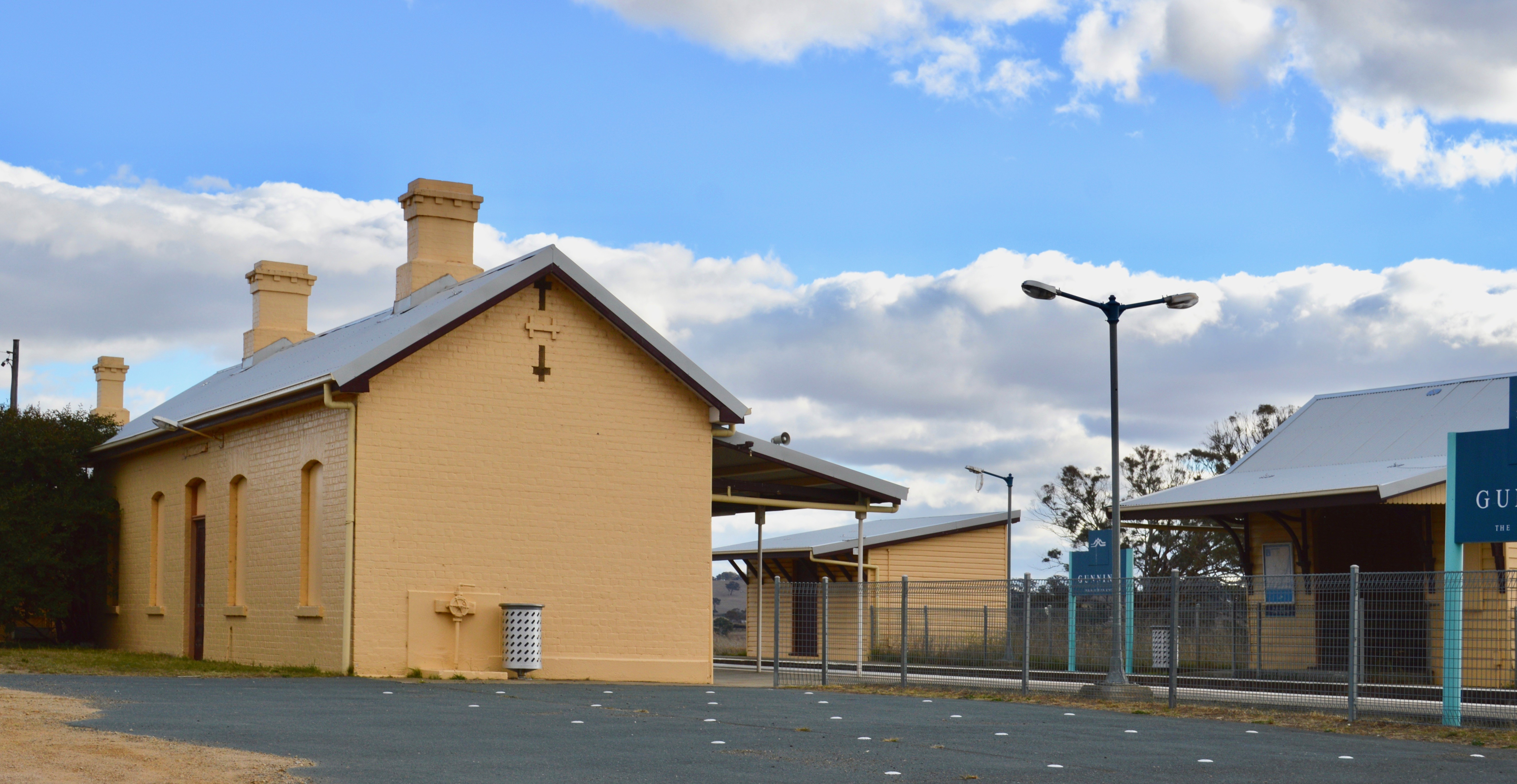 Railway station at Gunning, New South Wales